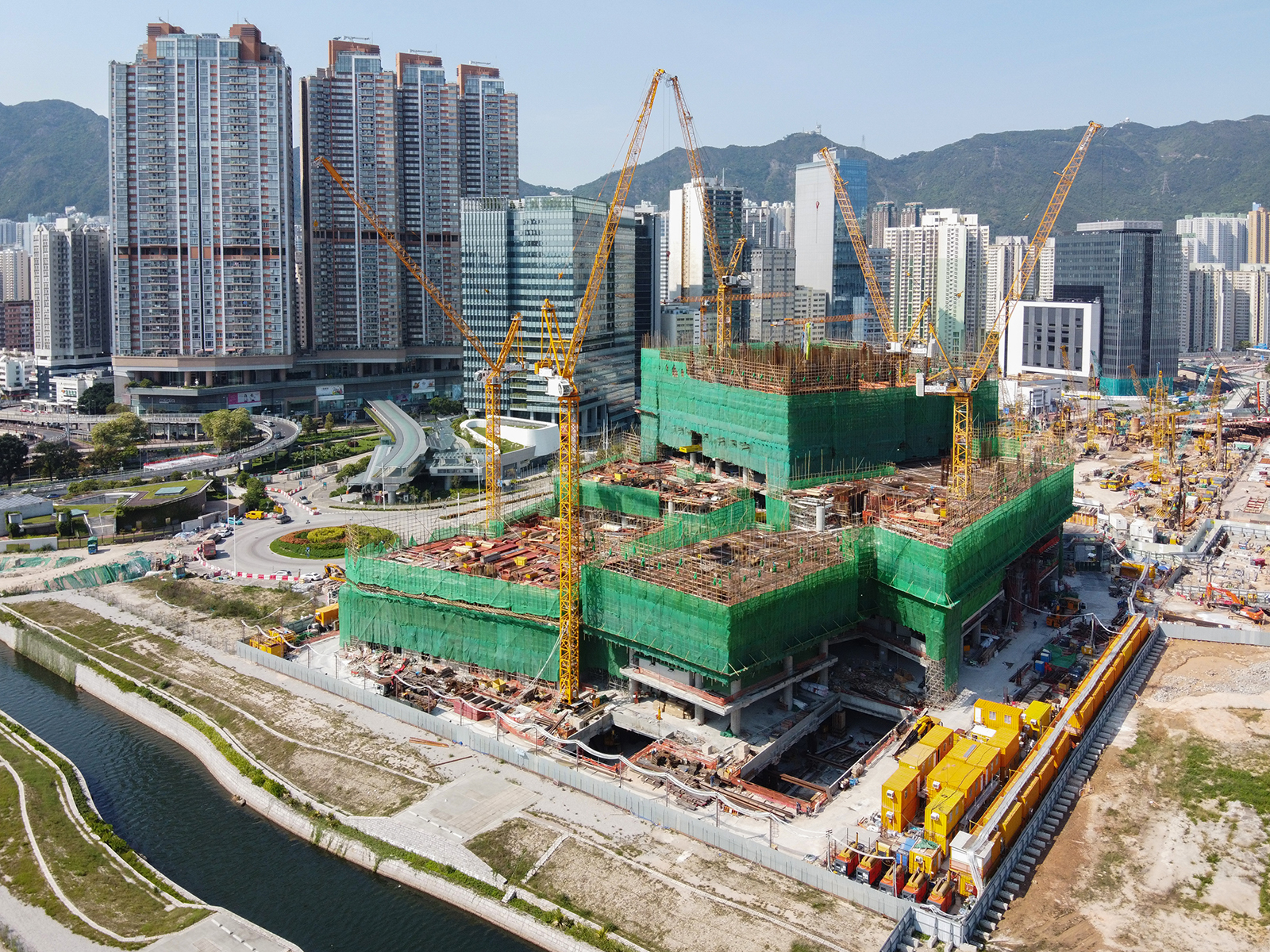 Nan Fung Grade-A Office & Retail Development NKIL 6556 site